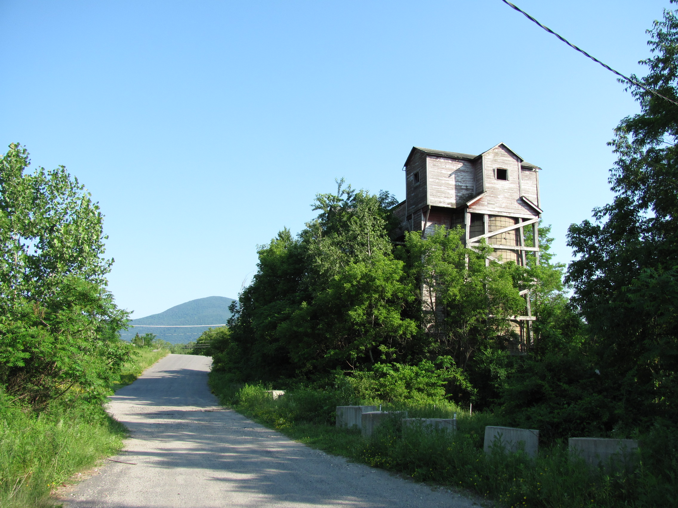 Williamstown Rail Yard, Williamstown Massachusetts